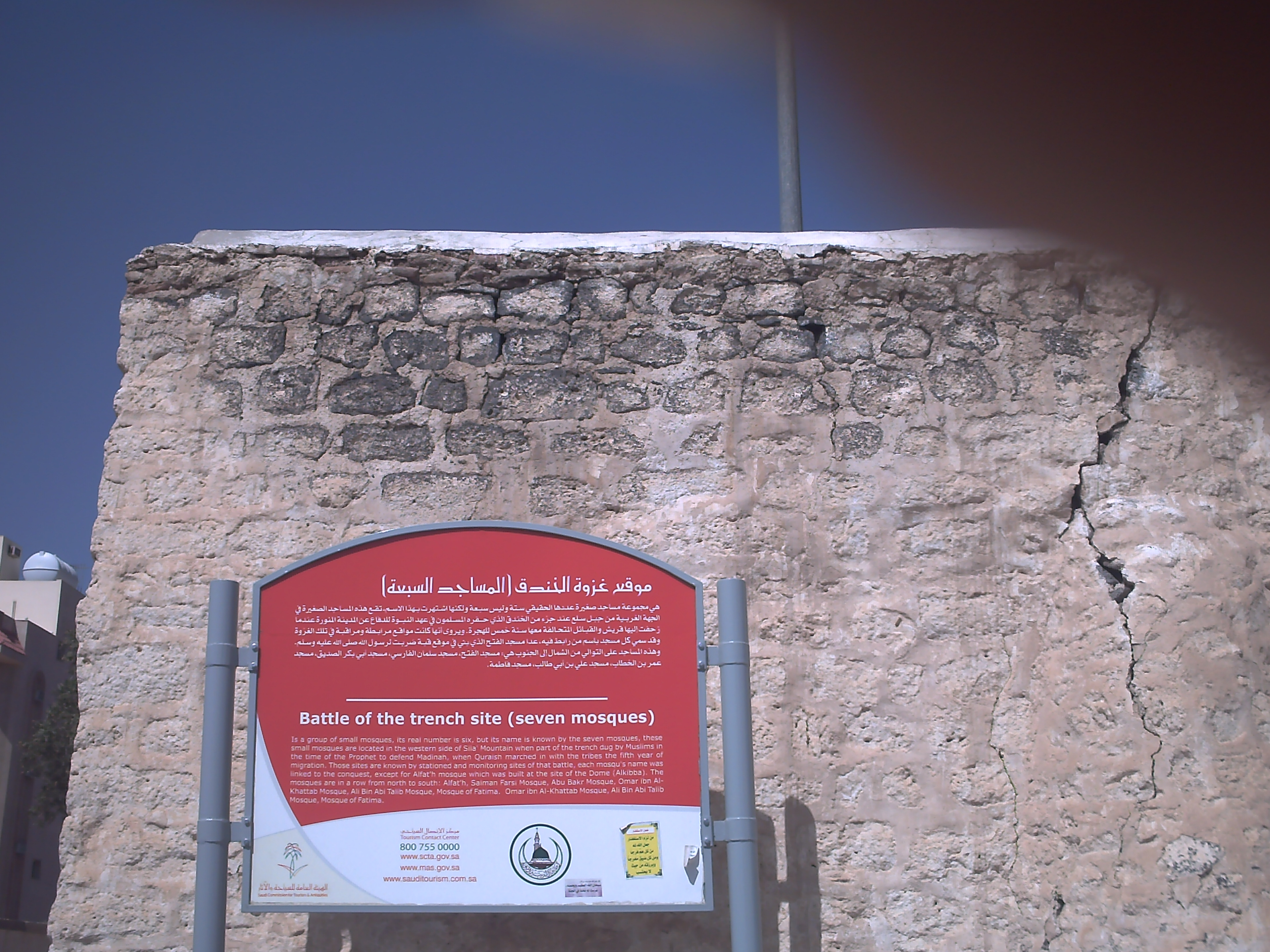 Battle of trench, Medina